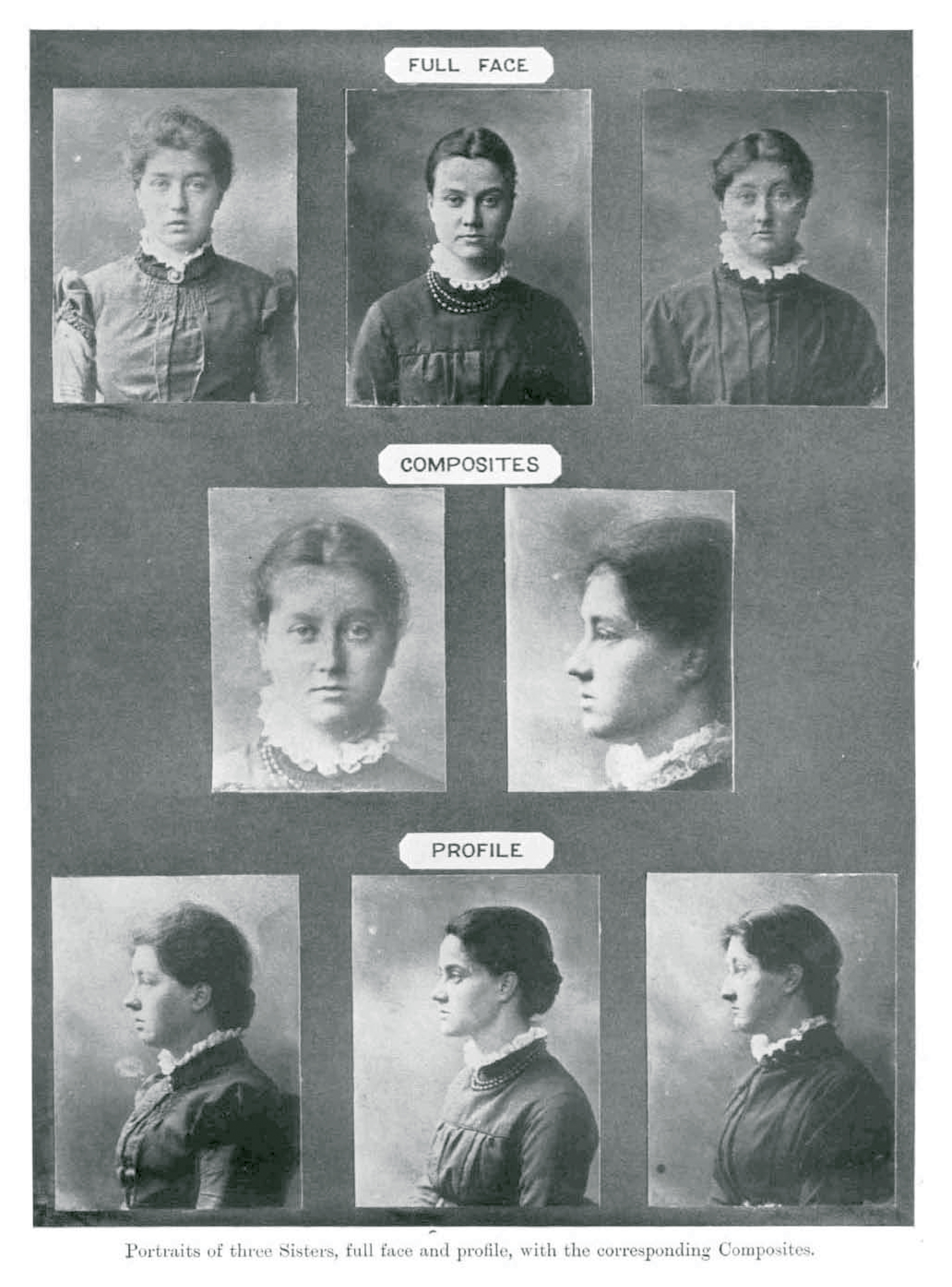 Composite photographs of three sisters. On the top and bottom rows are pictures of the sisters in front and profile. In the middle, two composite "average" portraits of the three.